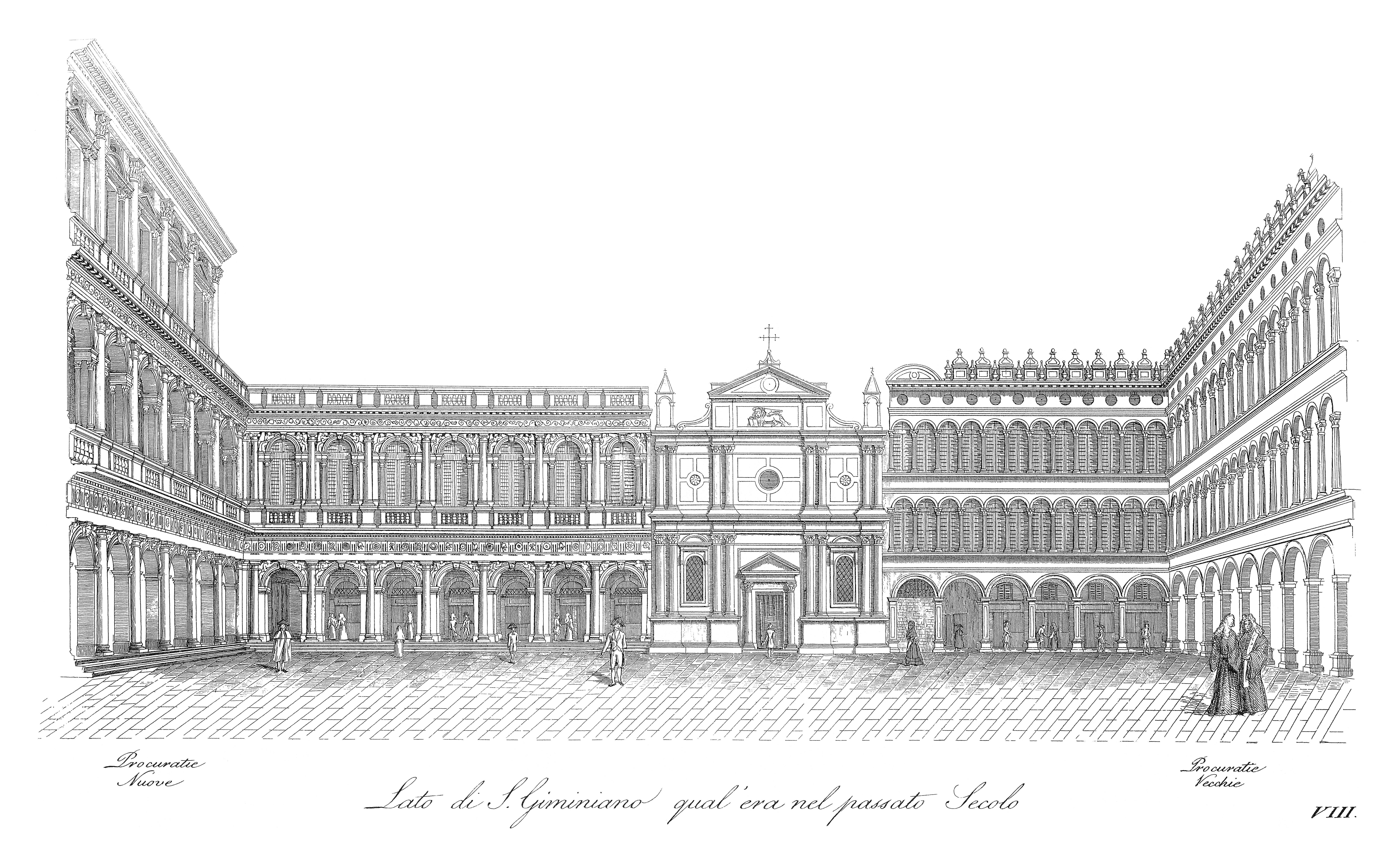 This image shows plate VIII, entitled Lato di San Gi[!]miniano qual’ era nel passato Secolo. View of the former church San Geminiano (or San Giminiano) at the west side of the Piazza San Marco (St Mark’s Square) which was destroyed in 1807 in order to build the Ala Napoleonica or Napoleonic wing of the Procuratorie.